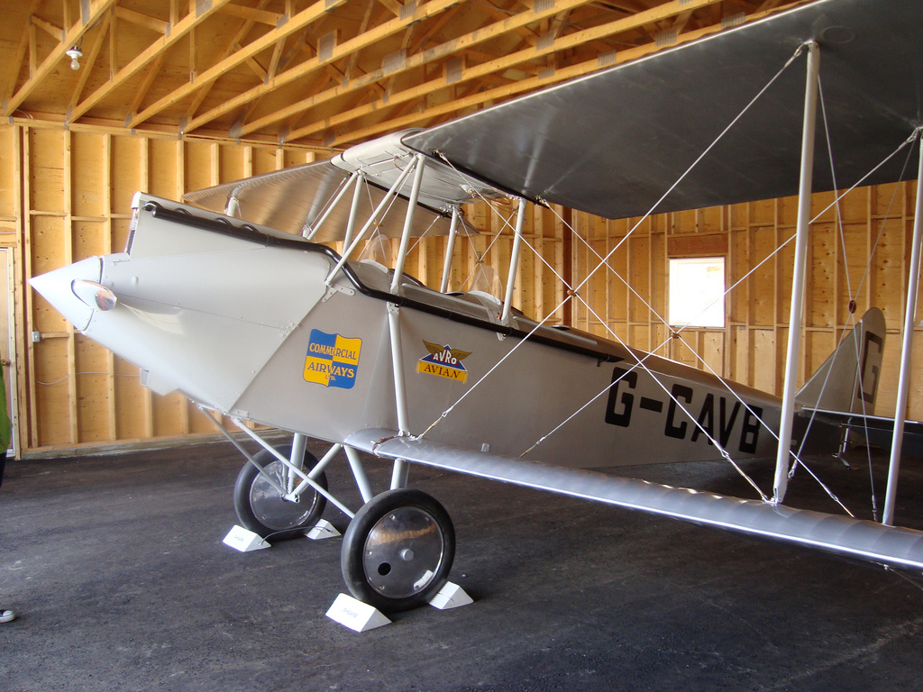 From Flickr: "Replica of Wop May's Plane" at Fort Edmonton Park, Edmonton, Alberta. Wop May was a WWI Canadian aviation hero.